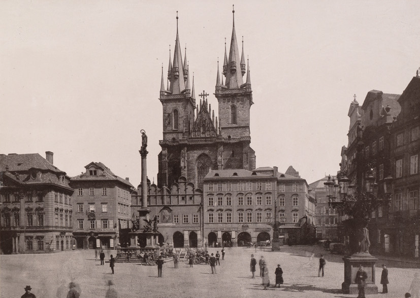 BPLDC no.: 08_04_000461 Page Title: The Teynkirche-The Old Church of Hussites, 15th Century. Collection: Tupper Scrapbooks Collection Album: Volume 4: Austria. Call no.: 4098B.104 v4 (p. 16) Creator: Tupper, William Vaughn Genre: Scrapbooks; Albumen prints Extent: 1 photographic print mounted on page : albumen ; page 33 x 39 cm. Description: Scrapbook page contains one photograph showing the square in front of the Teykirche. People pass through the square, and annotated information tells about the tomb located within the church. Transcription: It contains the tomb of Tycho Brahe astronomer d 1601. Notes: Page description supplied by cataloger, derived from captions and/or annotated information. BPL Department: Print Department Rights: No known restrictions. Flickr data on 2011-08-09: Camera: Sinar AG Sinarback 54 FW, Sinar m License: CC BY 2.0 User: Boston Public Library BPL